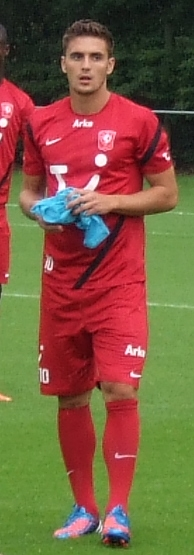 FC Twente player Dušan Tadić